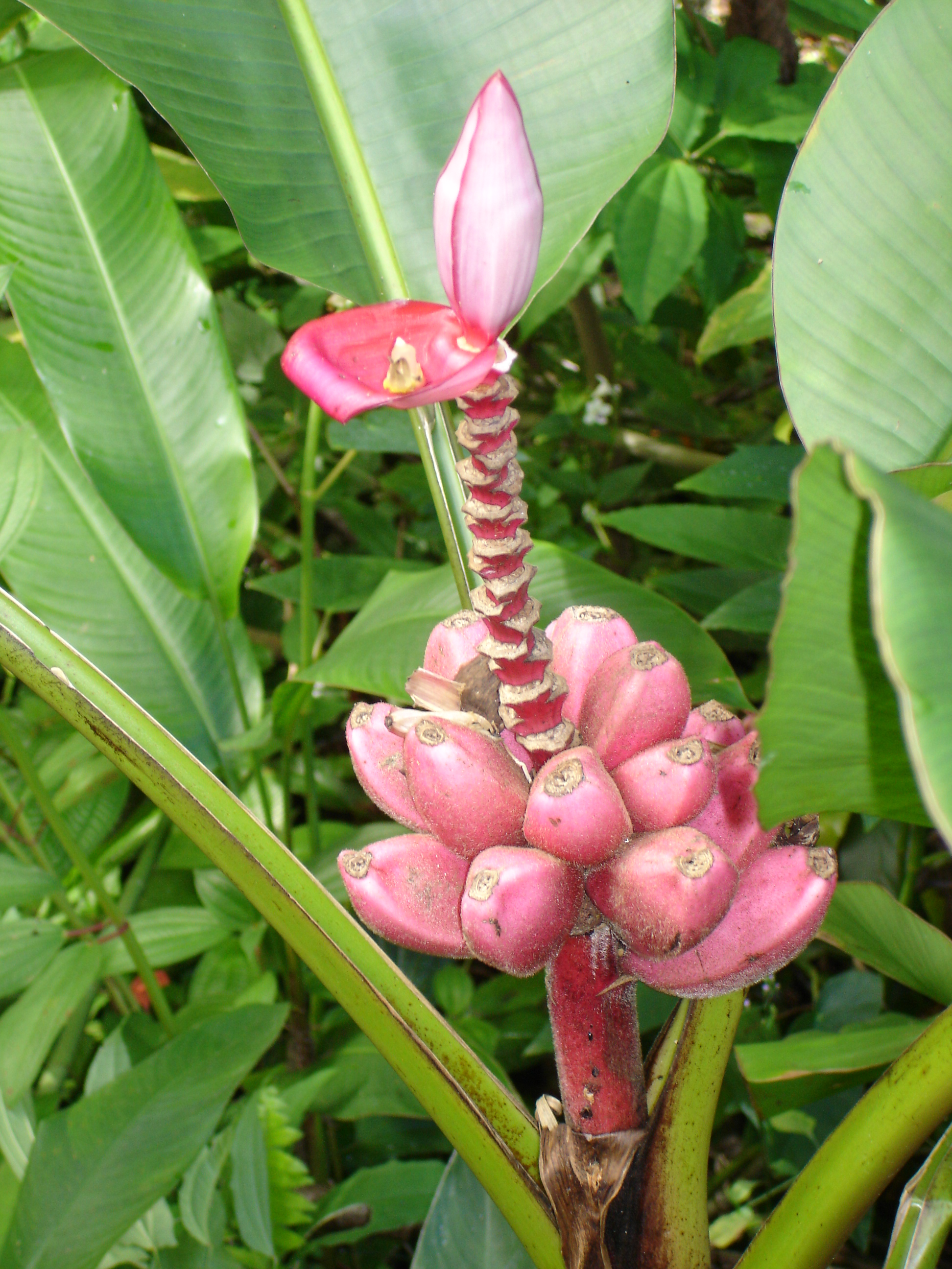 Photograph taken at the Jardin des parfums et des épices, Saint-Philippe, Réunion Island.